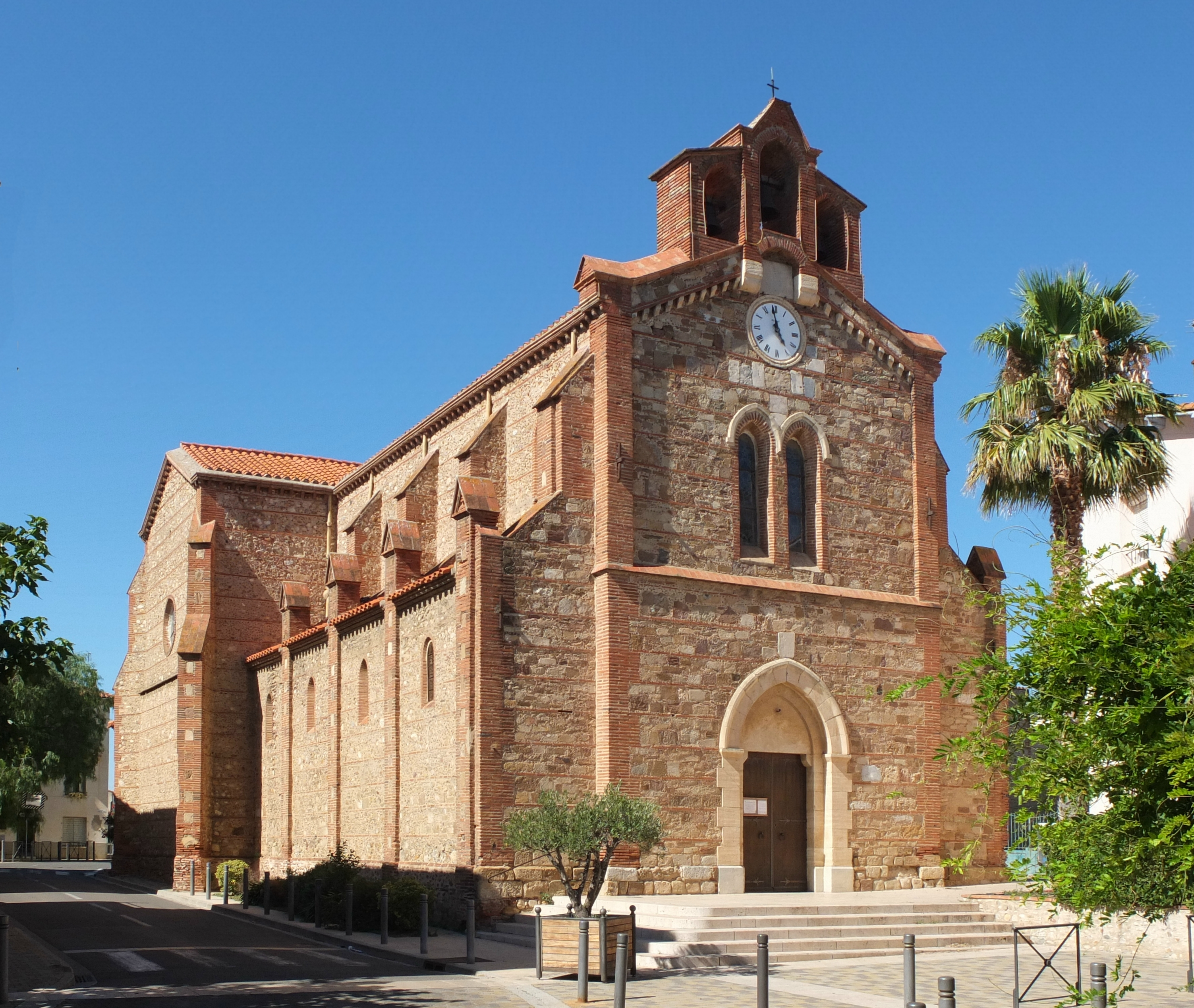 Parish church of Saint-Nazaire (Pyrénées-Orientales), France, Romanesque origin, but totally restored in the 19th ctry. (view S).